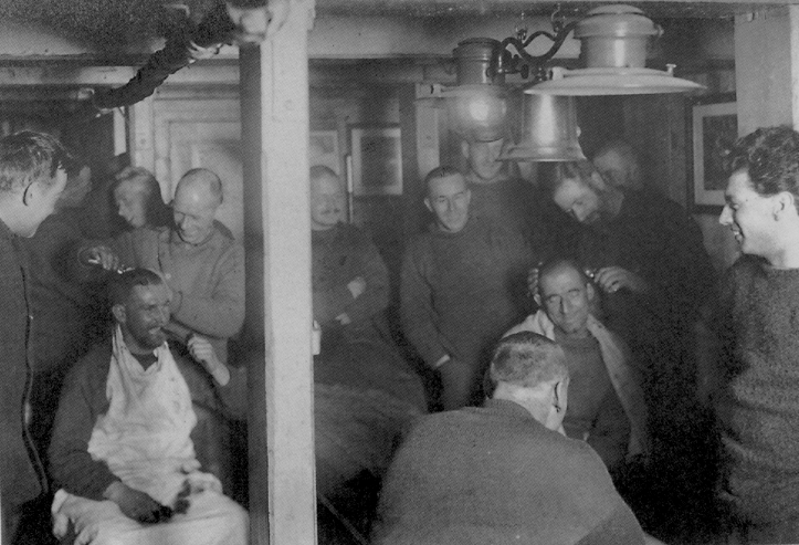 The crew having their hair cut on board Endurance